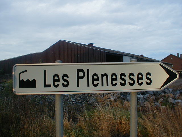 road sign to the industrial zone of "Les Plenesses" (walloon name) in Thimister Walon: plake viè l' zonigne des Plenesses (Timister) (portrait saetchî pa L. Mahin).